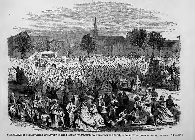 "Celebration of the abolition of slavery in the District of Columbia by the colored people in Washington, April 19, 1866" from Harper's Weekly, May 12, 1866, p. 30